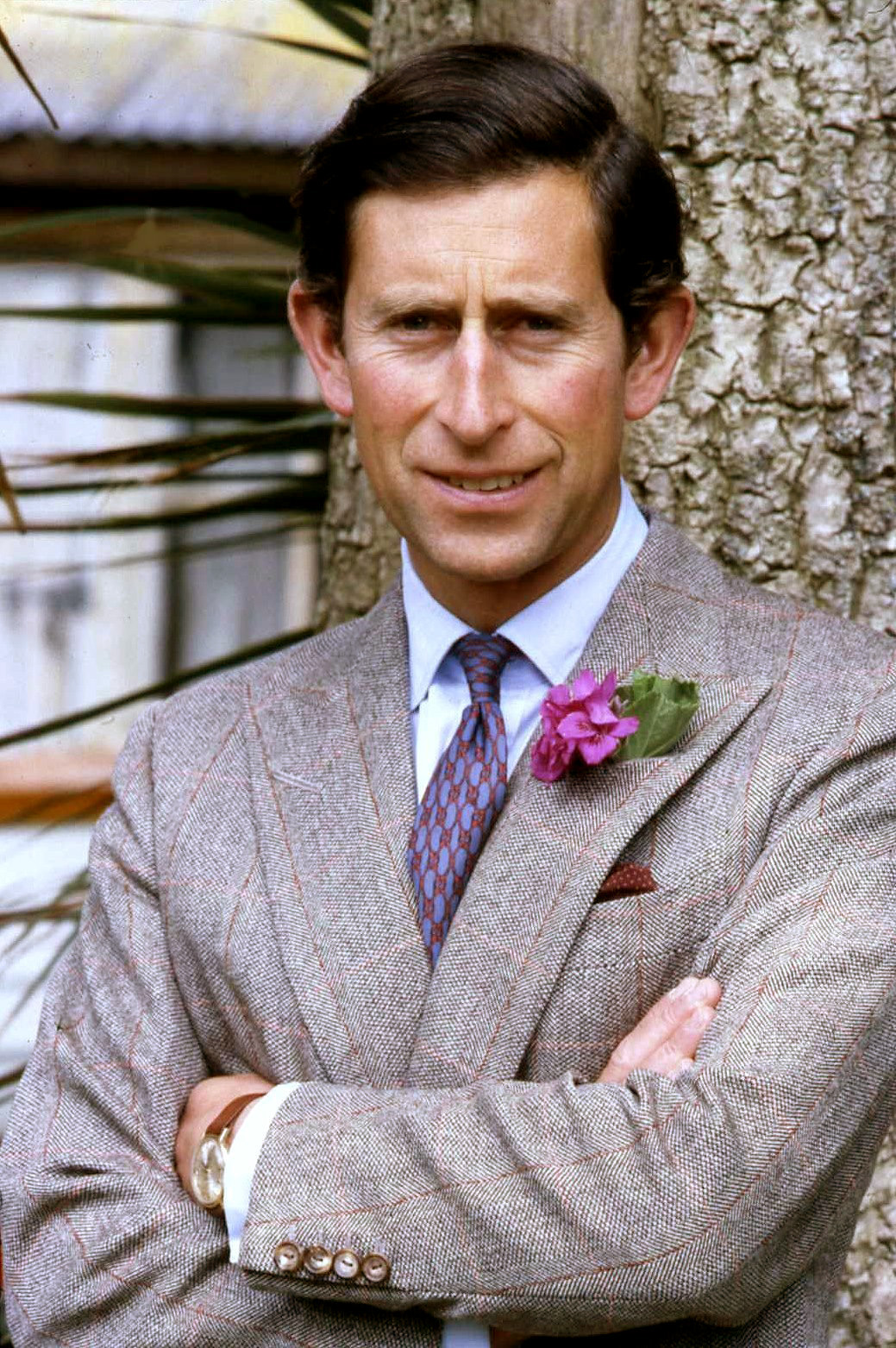 portrait HRH The Prince of Wales